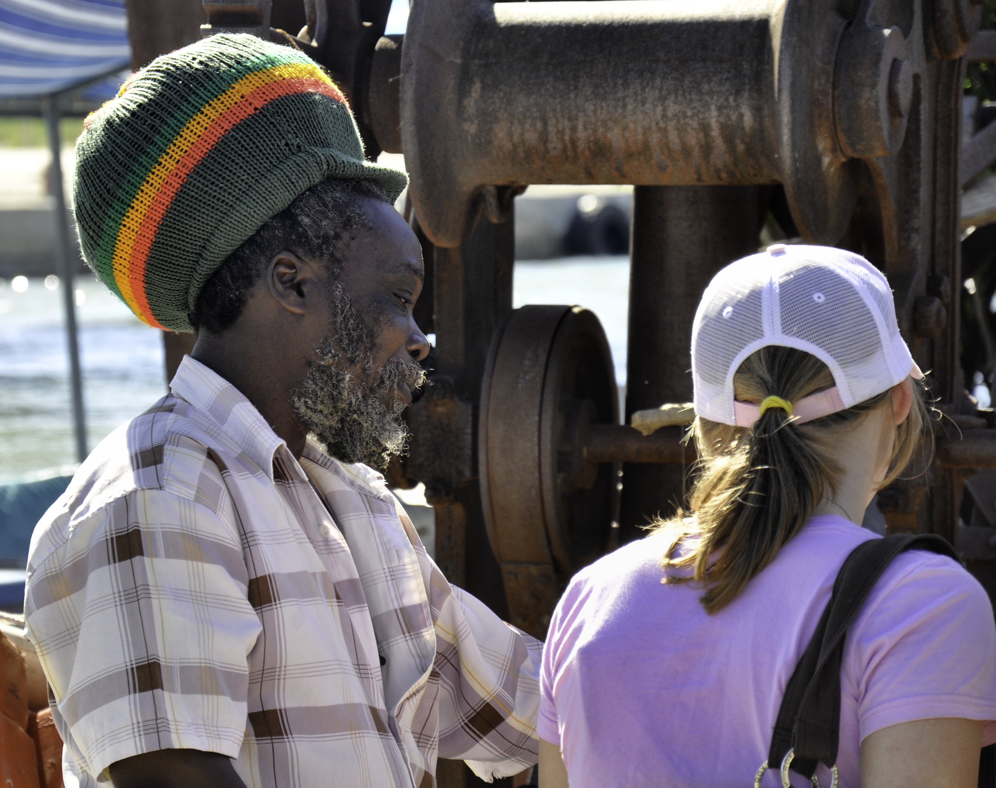 Rastafarian man in a public market at a port of Jamaica's Black River